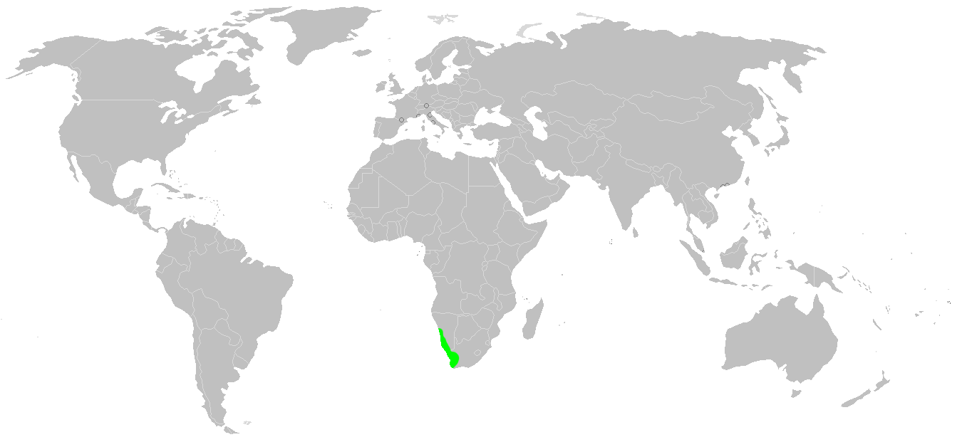 Known world distribution of Latrodectus indistinctus (Theridiidae), after The button spiders of southern Africa by Ansie Dippenaar-Schoeman.